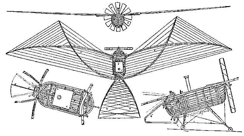 1857 patent drawing of Felix Du Temple's flying machine, the "Canot planeur".